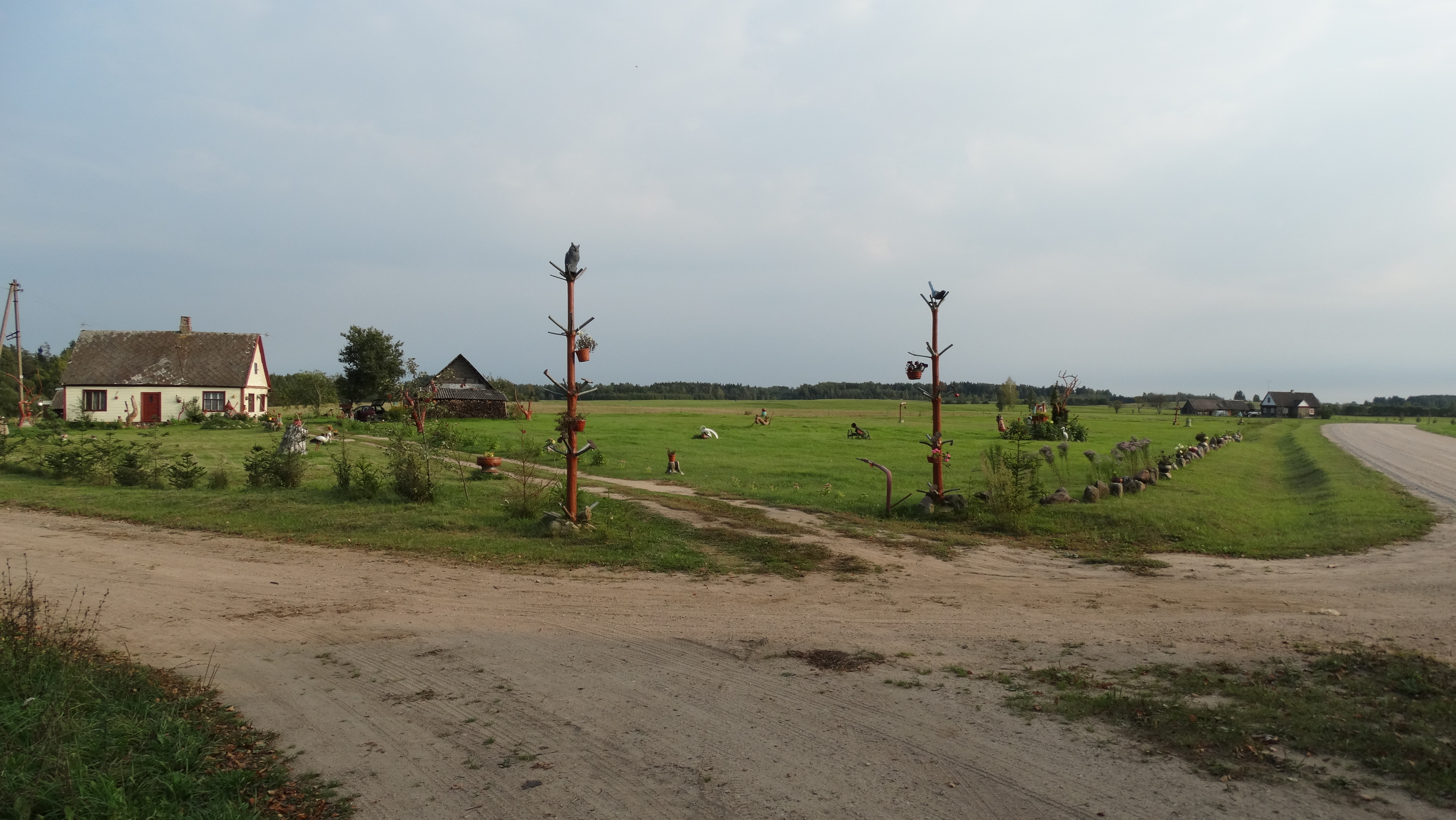 Barauka, Zarasai District, Lithuania